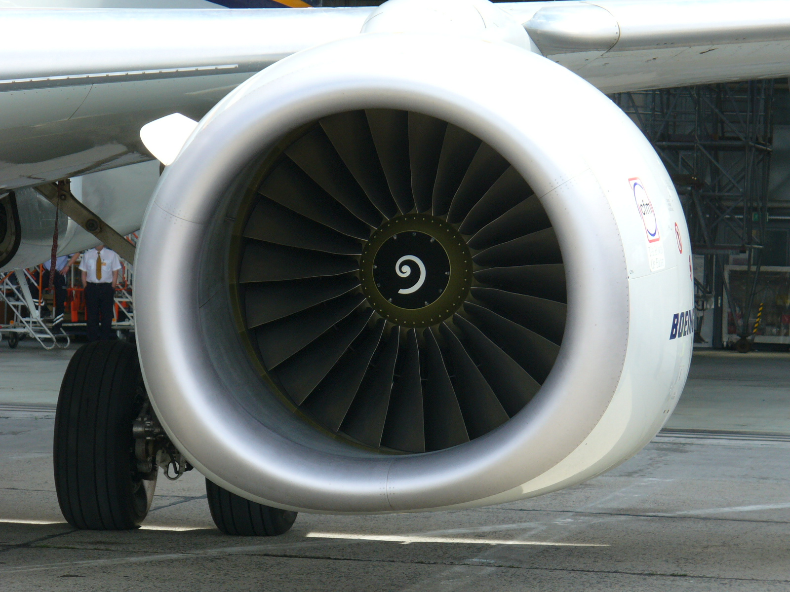 The left engine of a Jet Airways Boeing 737-800 (VT-JGF); photo taken during the ILA 2006